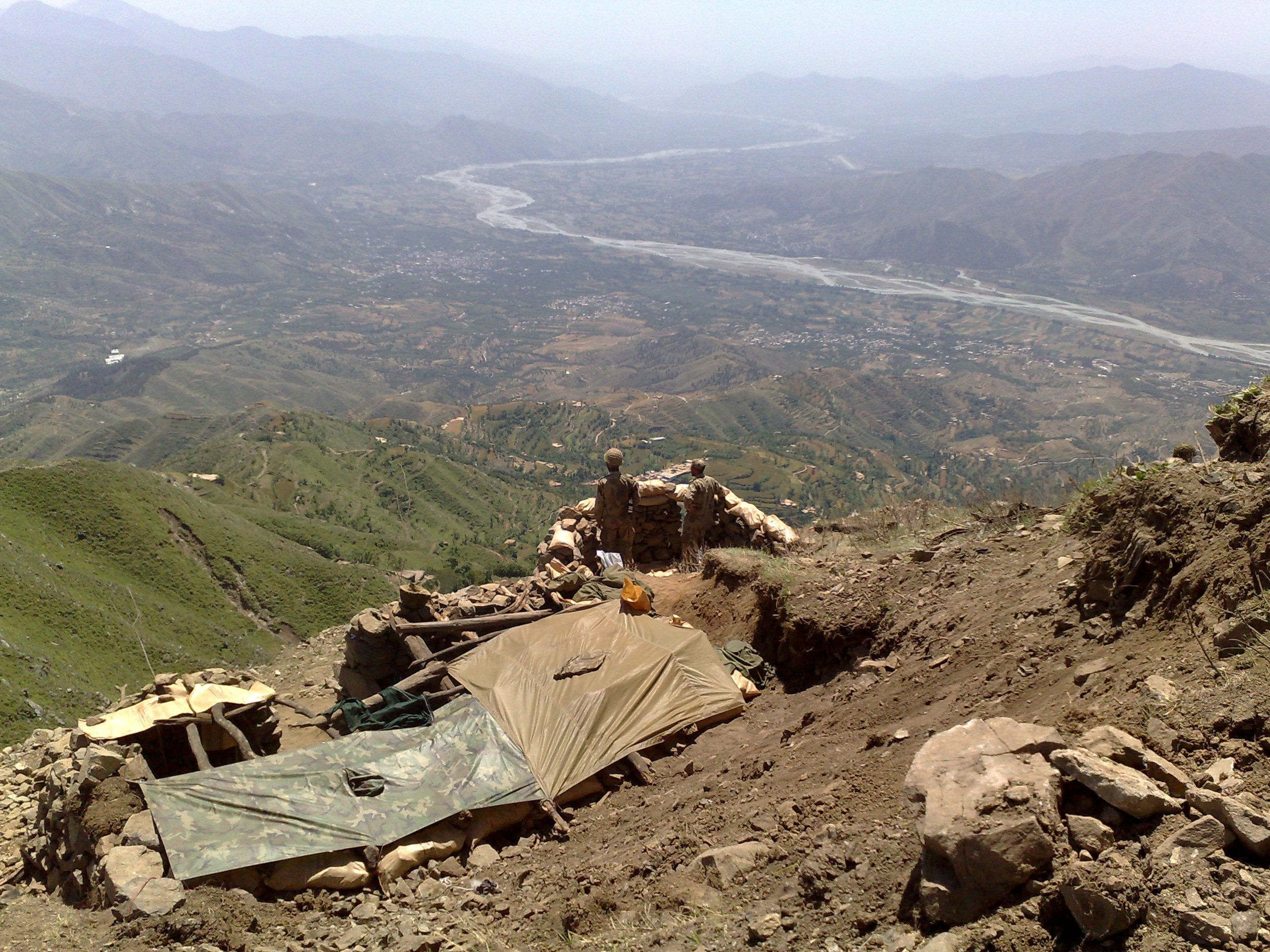 Pakistani forces captured Baine Baba Ziarat, the highest point in Swat valley, 10 days ago.